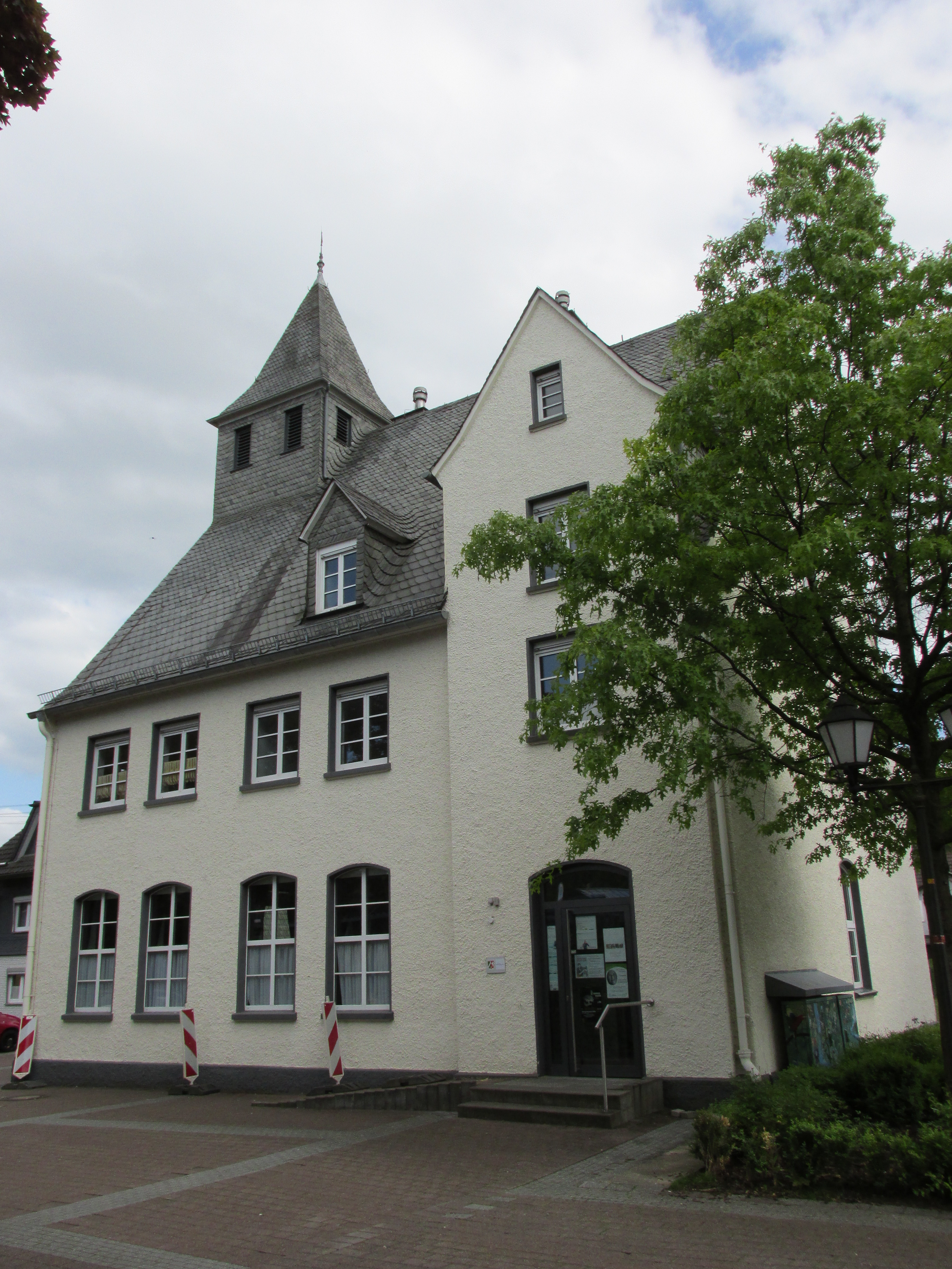 St. Petersplatz 5, Netphen, Germany